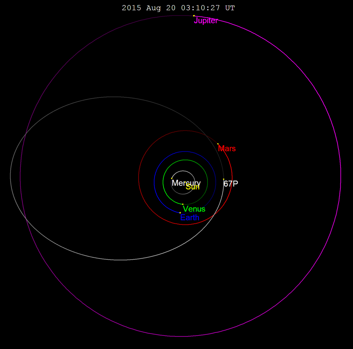 en:67P/Churyumov–Gerasimenko orbit between Mars and Jupiter